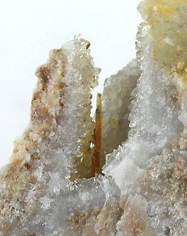 Tellurite Locality: Moctezuma Mine (Bambolla Mine), Moctezuma, Municipio de Moctezuma, Sonora, Mexico (Locality at ) Size: 3.3 x 2.0 x 1.3 cm. A single, beautifully formed, terminated, brightly colored tellurite crystal perched in a protected vug, lined with drusy quartz. The crystal is approx 5-6mm long. One of the surprises of 2007 for rarities was the reworking of the famous old Bambolla mine in the Moctezuma tellurium complex for specimens, by several European-led collecting teams. Many specimens were then sold at Munich 2008 and this year in Tucson.